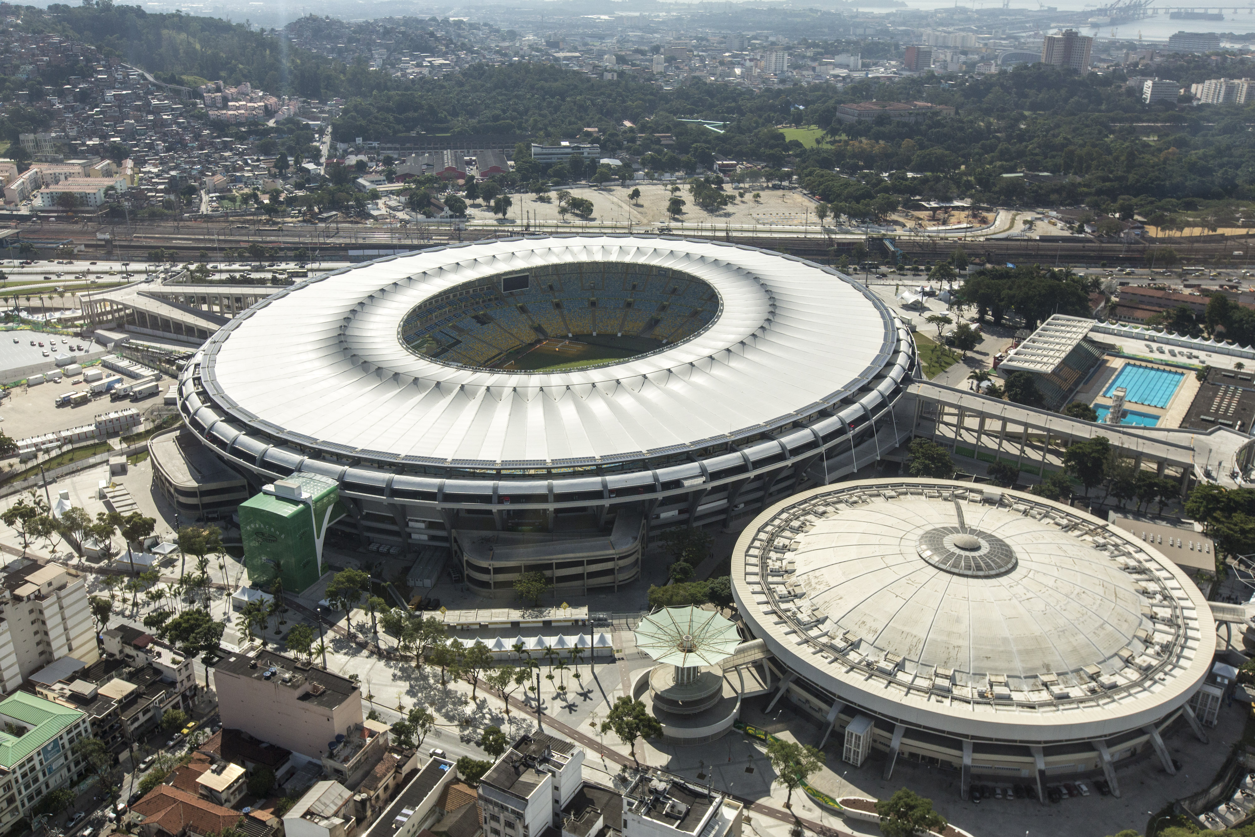 Maraca Stadium on June 2013